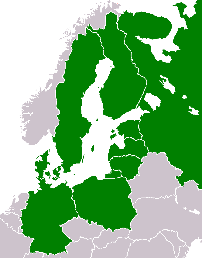 Map showing the members of the Helsinki Commission, also known as the Baltic Marine Environment Protection Commission. Does not include the European Community, which is also a member.